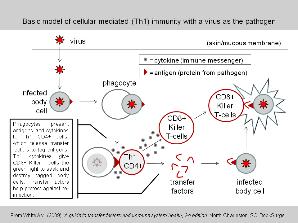 Transfer factors and Th1 (cell-mediated) immunity